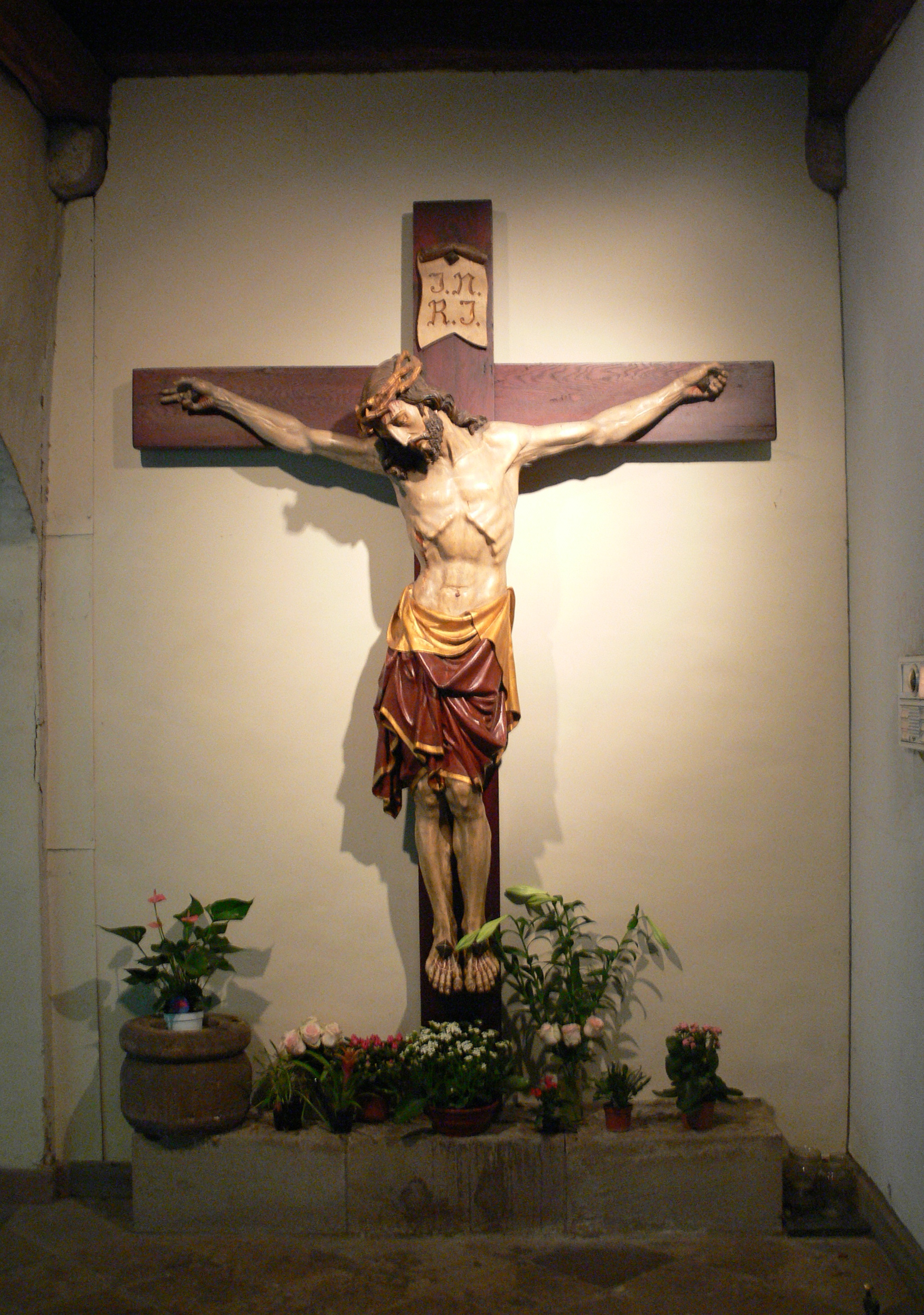 Cloisters of Essen Minster, Essen, Germany.